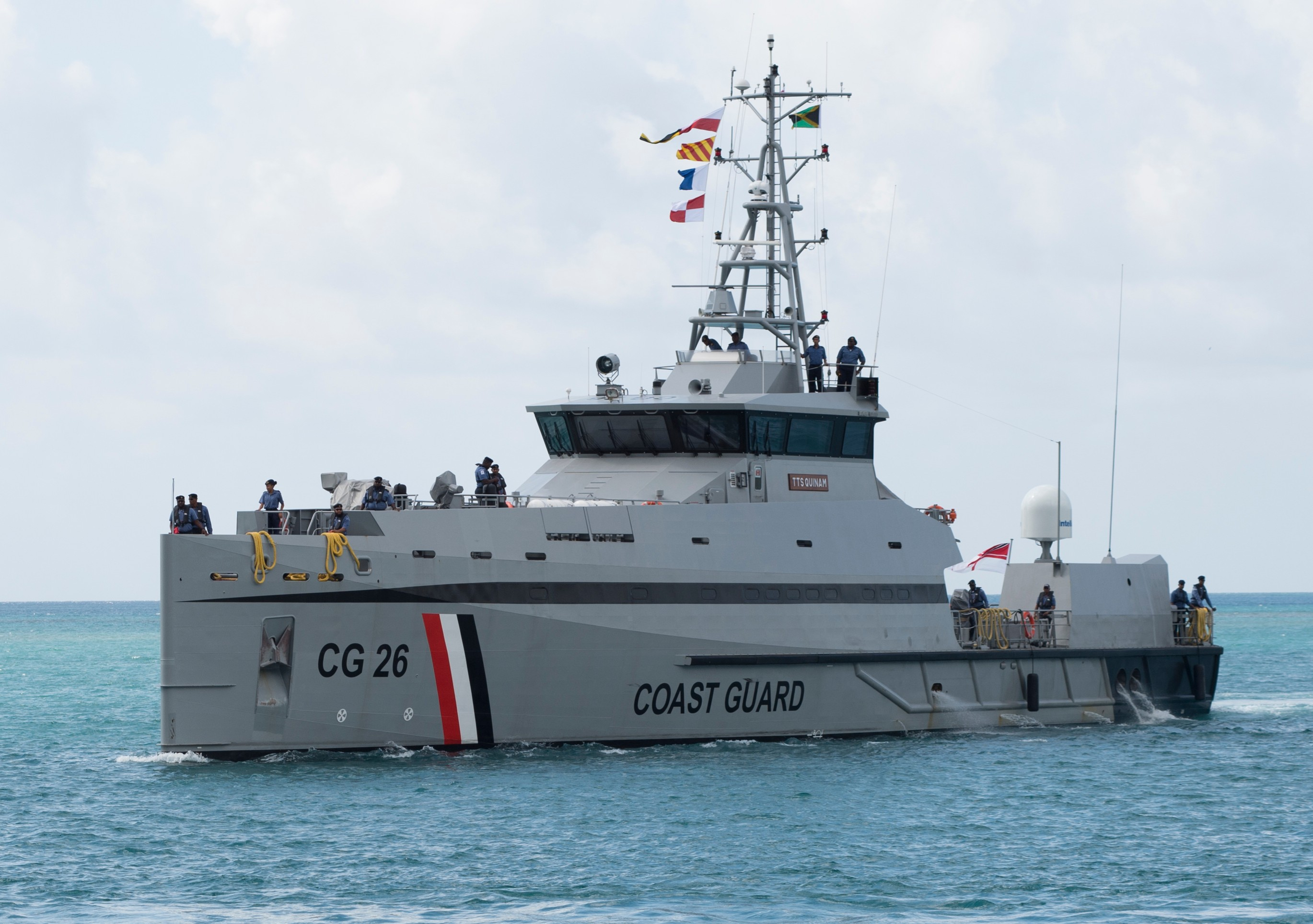 160619-N-FE728-103 Montego Bay, JAMAICA (JUNE 19, 2016) The Trinidad & Tobago Coast Guard TTS QUINAM (CG26), arrives in Montego Bay Port in preparation of Phase II of Tradewinds 2016. Military and police forces from 18 partner nations are participating in Tradewinds Phase II, held June 20-28 in Jamaica. Tradewinds 2016 is a joint, combined exercise in conjunction with partner nations to enhance the collective abilities of defense forces and constabularies to counter transnational organized crime and to conduct humanitarian/disaster relief operations (U.S. Photo by Mass Communication Specialist 1st Class Todd Stafford) VIRIN = 160619-N-FE728-103